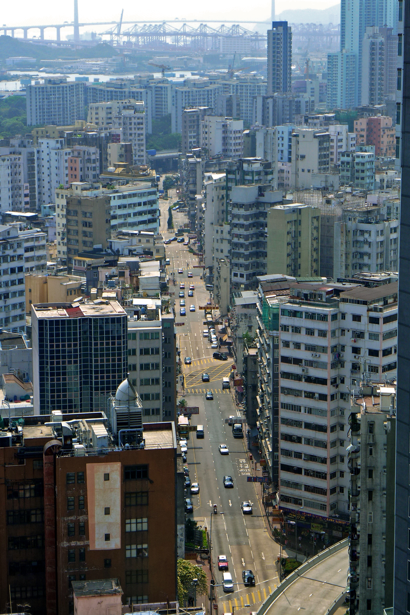 Boundary Street view to Sham Shui Po